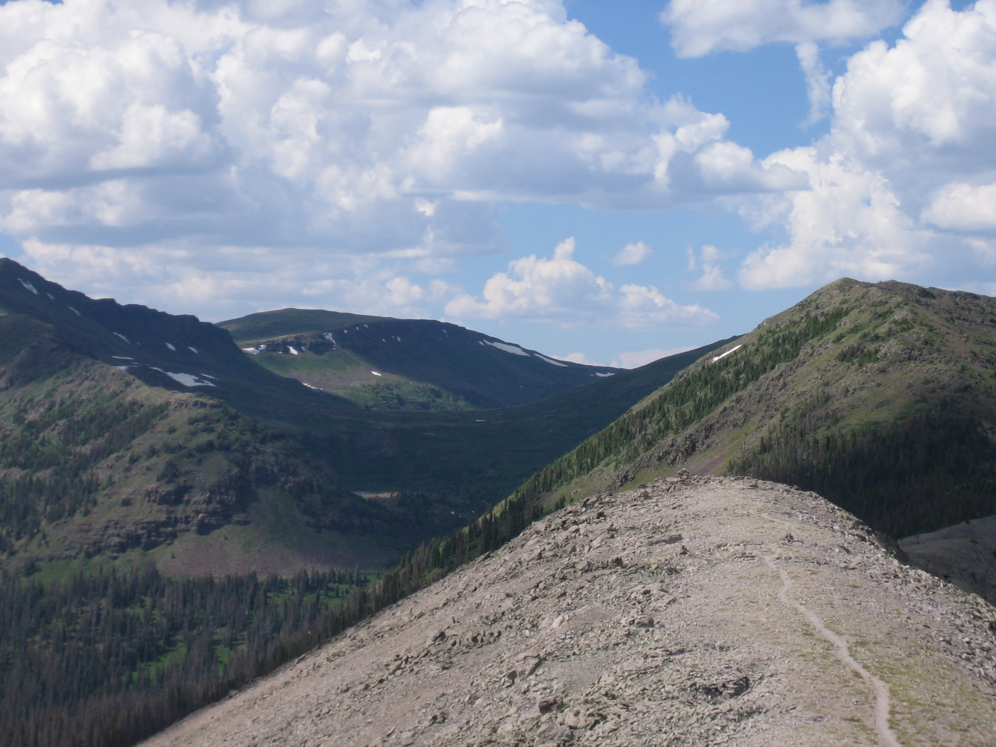 Looking north on the Continental Divide Trail in the Weminuche Wilderness between the Palisade Meadows cutoff and the Knife Edge - of the Rocky Mountains in Colorado.